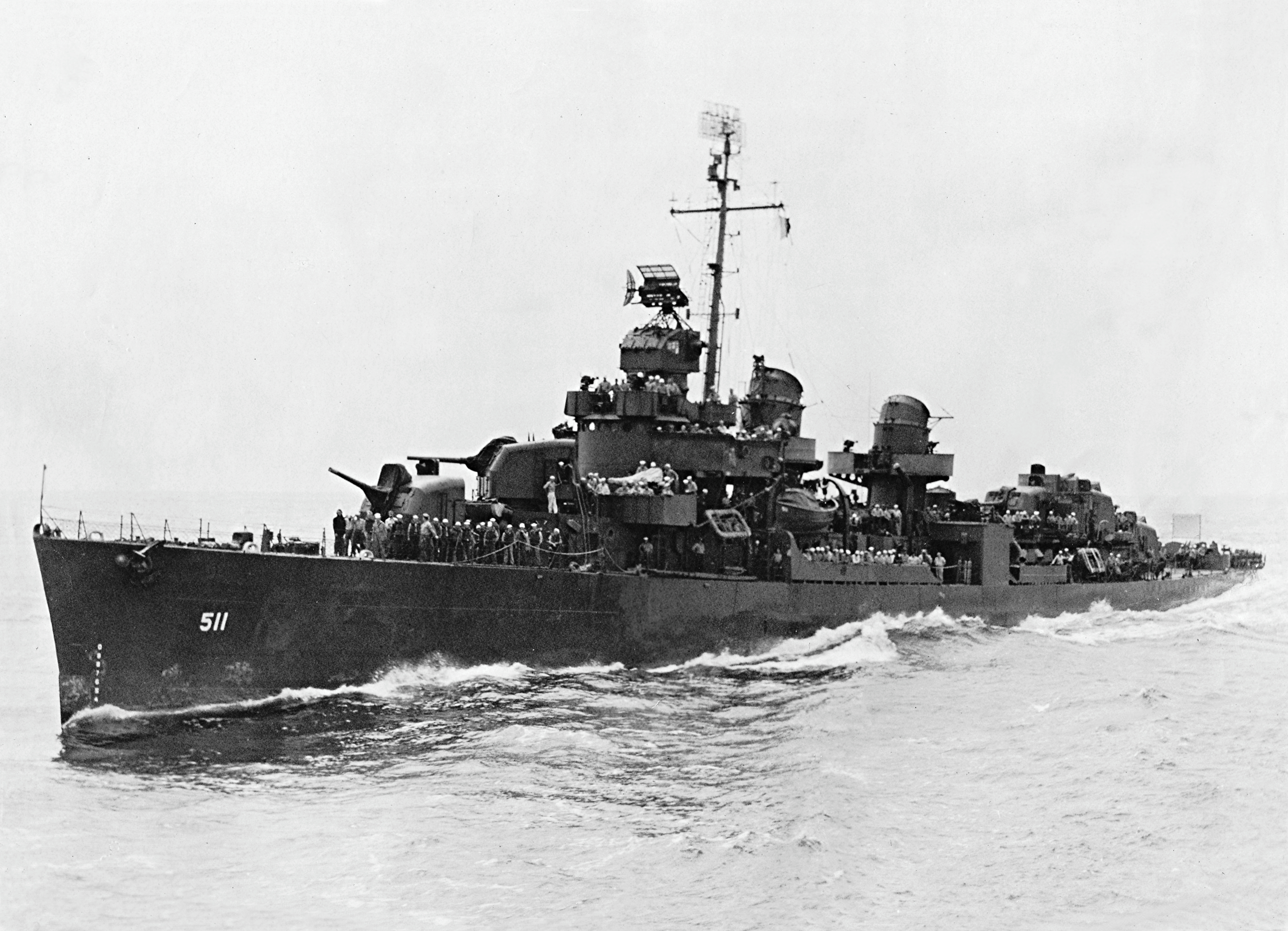 The U.S. Navy destroyer USS Foote (DD-511) underway at sea, circa 1945.